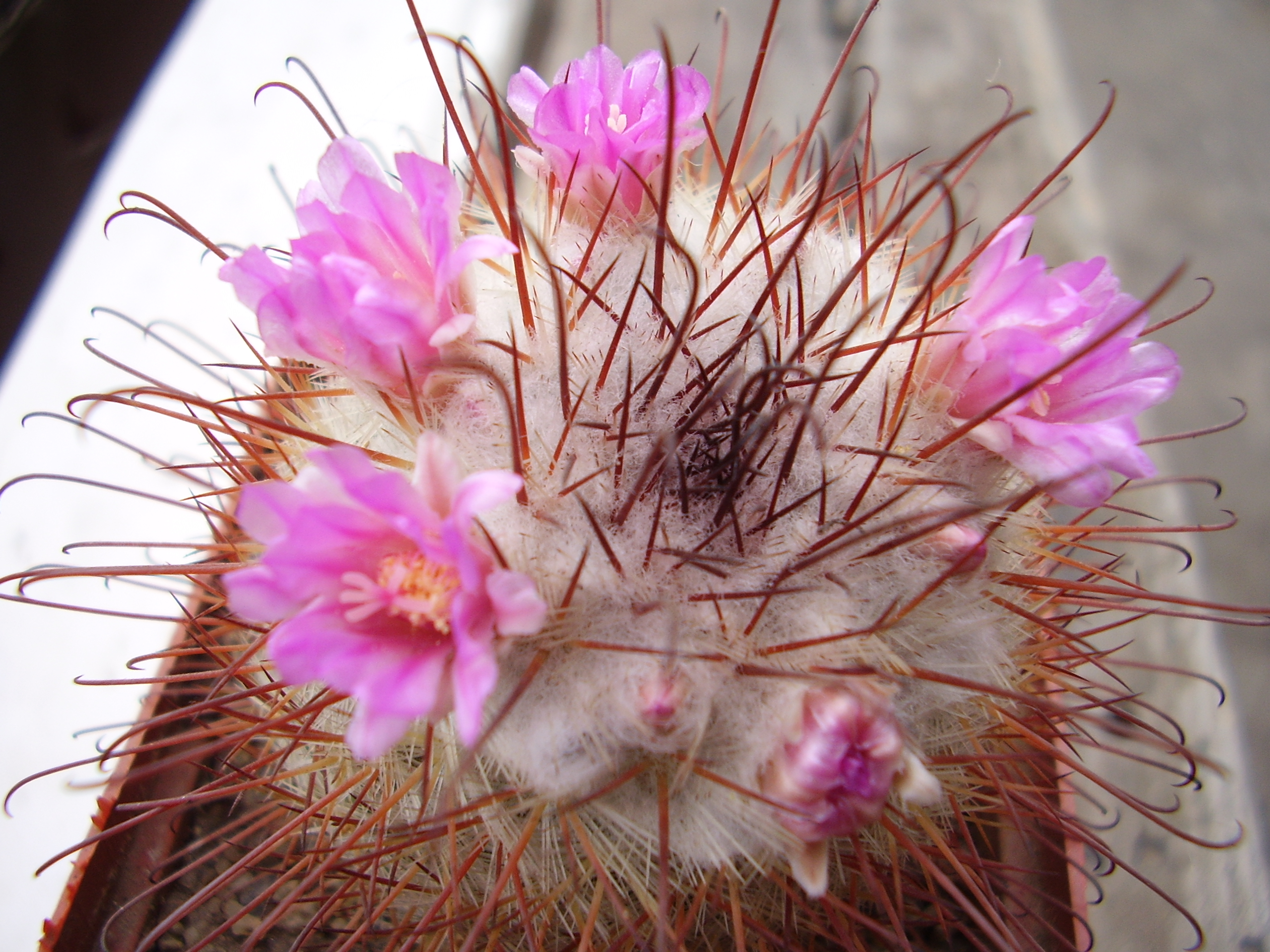 Mammillaria bombicina from collection of Yuriy Shostak, Mykolaiv, Ukraine